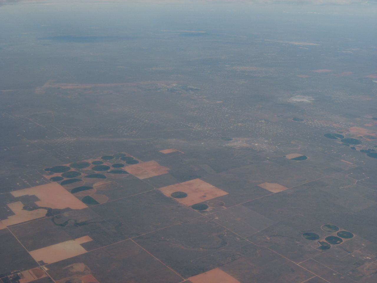 Andrews is a city in and the county seat of Andrews County in the U.S. state of Texas within the West Texas region. The population was 16,117 as of 2013. Along with Midland and Odessa, these cities form the Midland-Odessa Combined Statistical Area with a population of 274,002 in four counties. Andrews was the fastest growing Texas micropolitan in 2008 and 2009. Andrews was incorporated on February 2, 1937. Both the city and county were named for Richard Andrews, the first Texan soldier to die in the Texas Revolution. Andrews is a city built on oil and soil. After the first oil well was drilled (1929) by Deep Rock Oil Company on Missourian Charles E. Ogden's property Andrews County became one of the major oil producing counties in the State of Texas, having produced in excess of 1 billion barrels (160,000,000 m3) of oil. However, the cyclical nature of the oil business (as well as diminishing production on existing wells), has caused the community to look into new means of economic development, such as waste disposal, which in some areas has caused controversy.